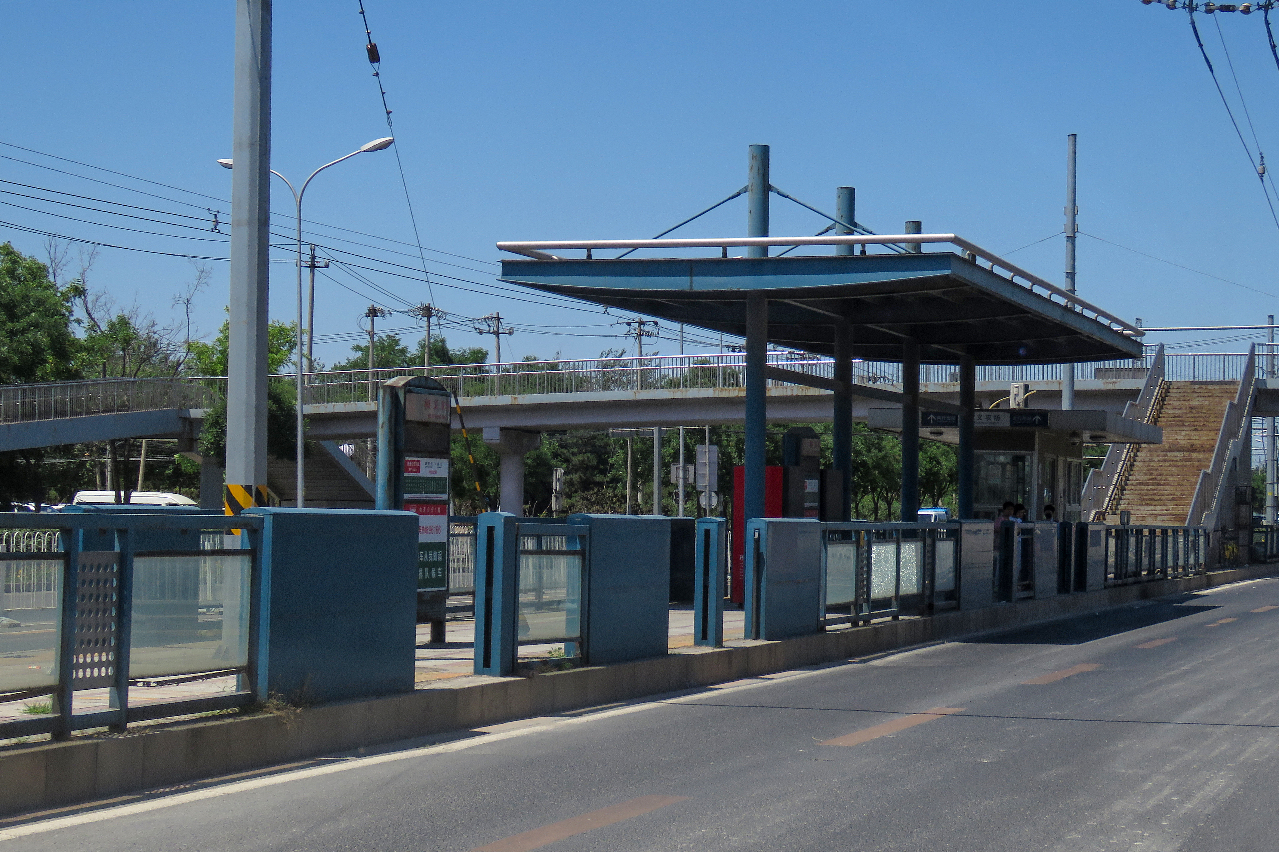 Heyi Farm... no better images for the road itself during this BRT ride.